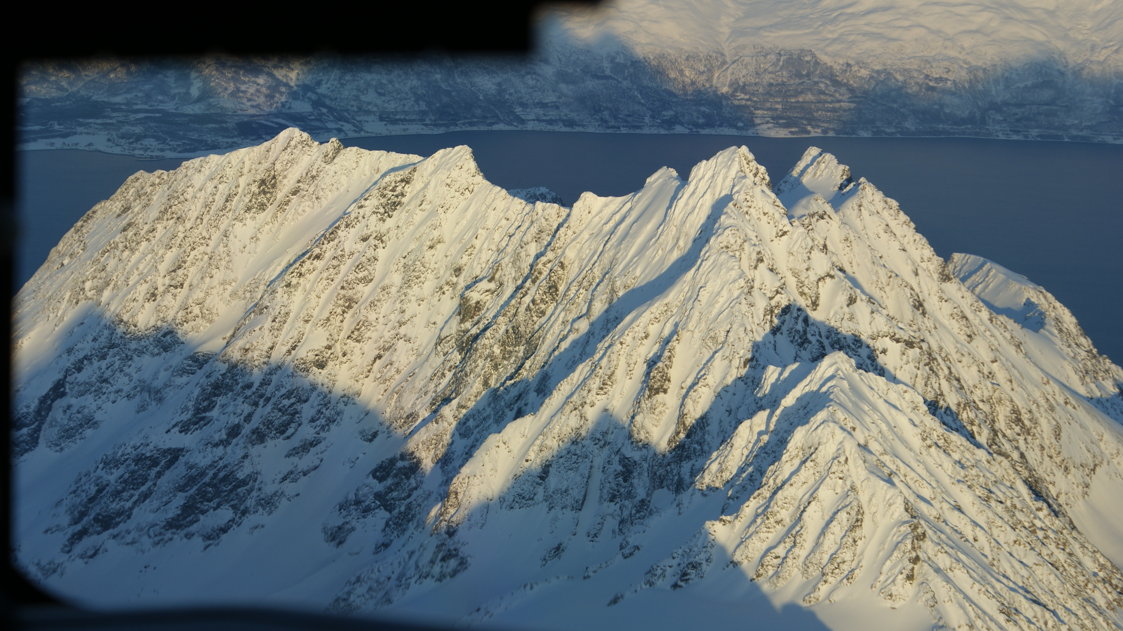 Aerial view of Lyngsalpane, Troms, Norway. Photographed from the cockpit of Widerøe de Havilland Canada Dash-8 103.